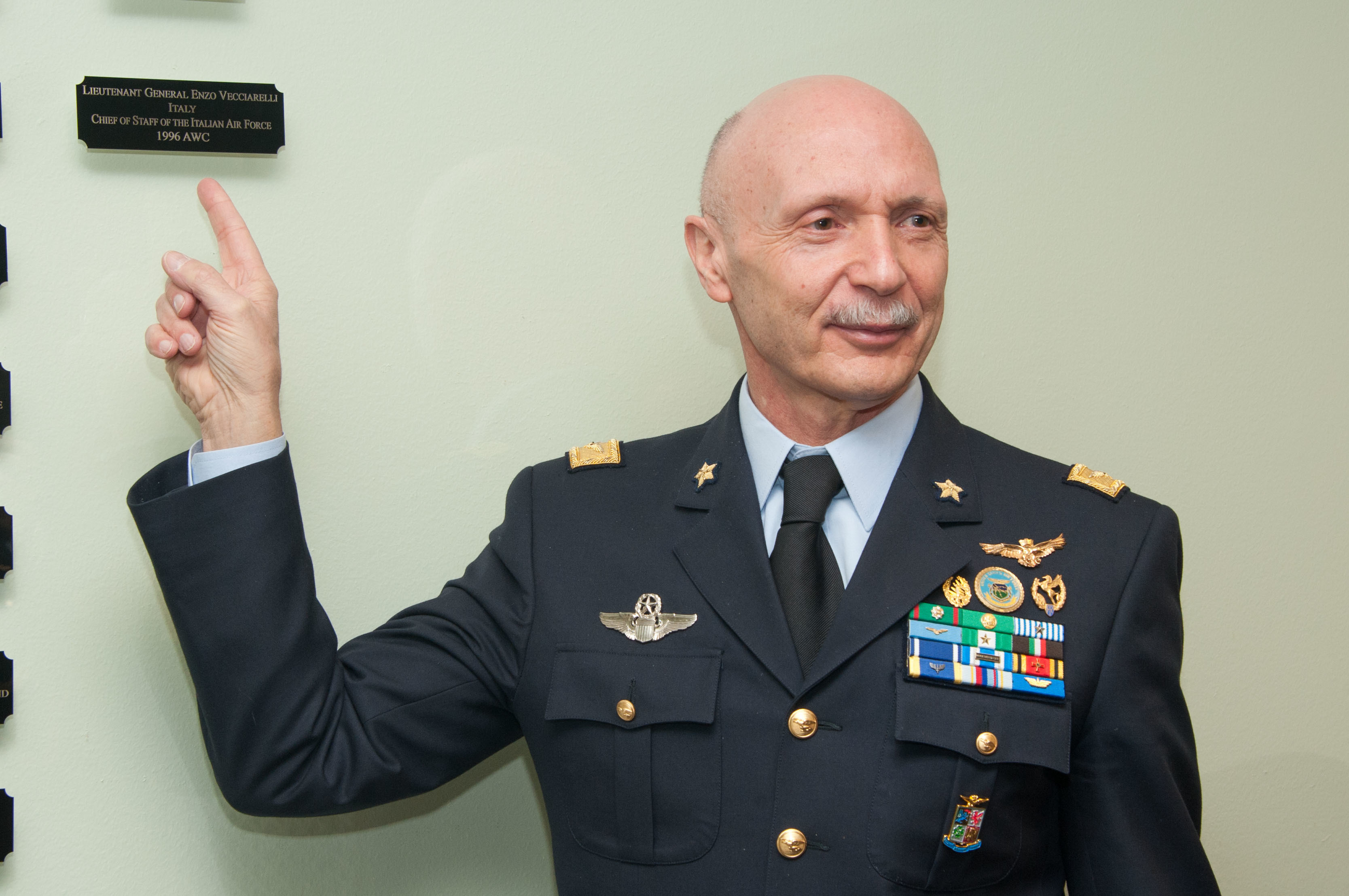 Maxwell AFB, Ala. - Lt Gen Enzo Vecciarelli, Chief of the Italian Air Force visited Maxwell AFB and was inducted into the International Officer Honor Roll by Lt Gen Steven Kwast, Commander and President, Air University. Gen Veciarelli points to his plaque in the International Honor Roll room at the International Officer School. (US Air Force photo by Bud Hancock/Released)